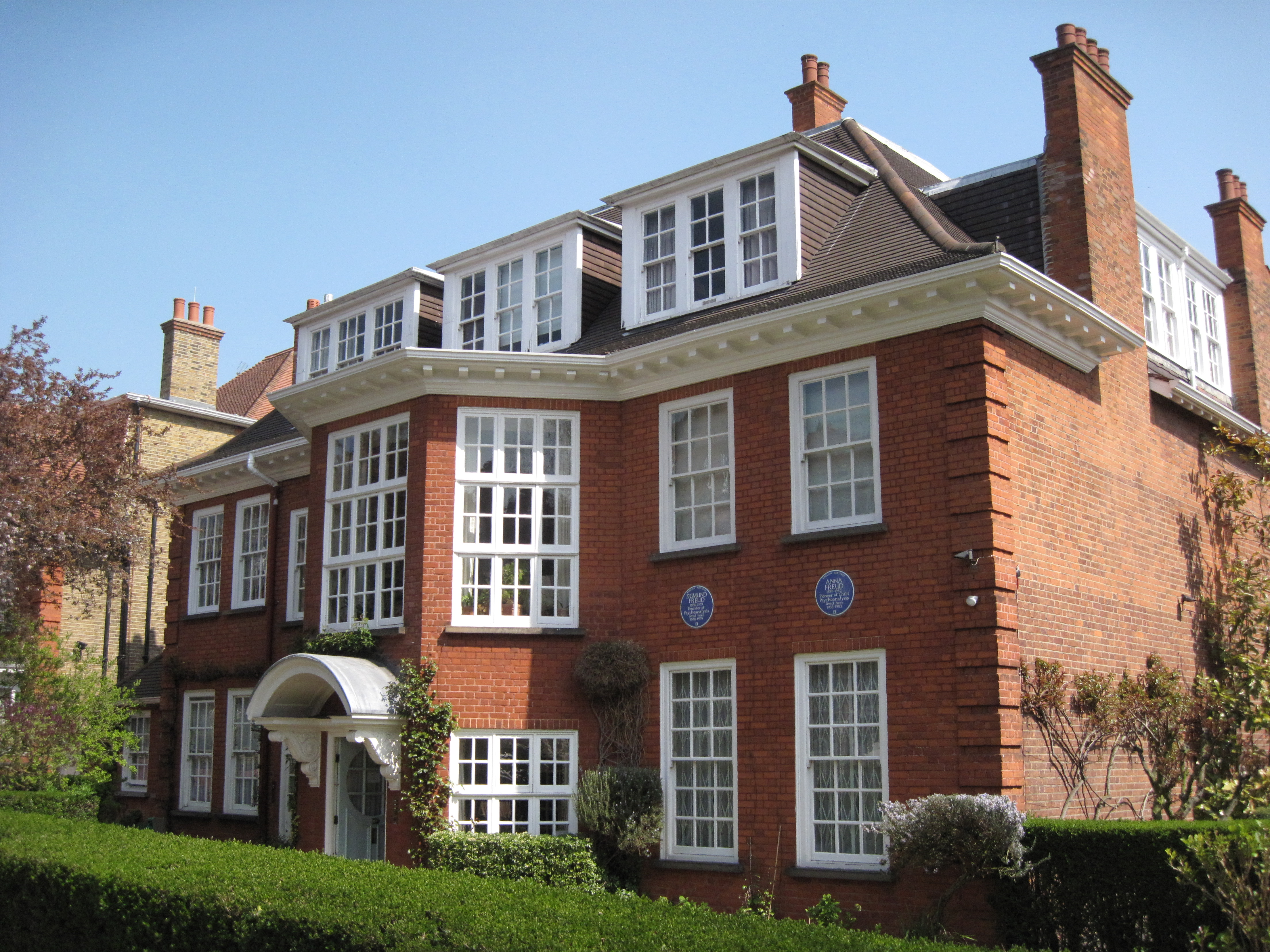 Sigmund Freud Museum London (view from the street)